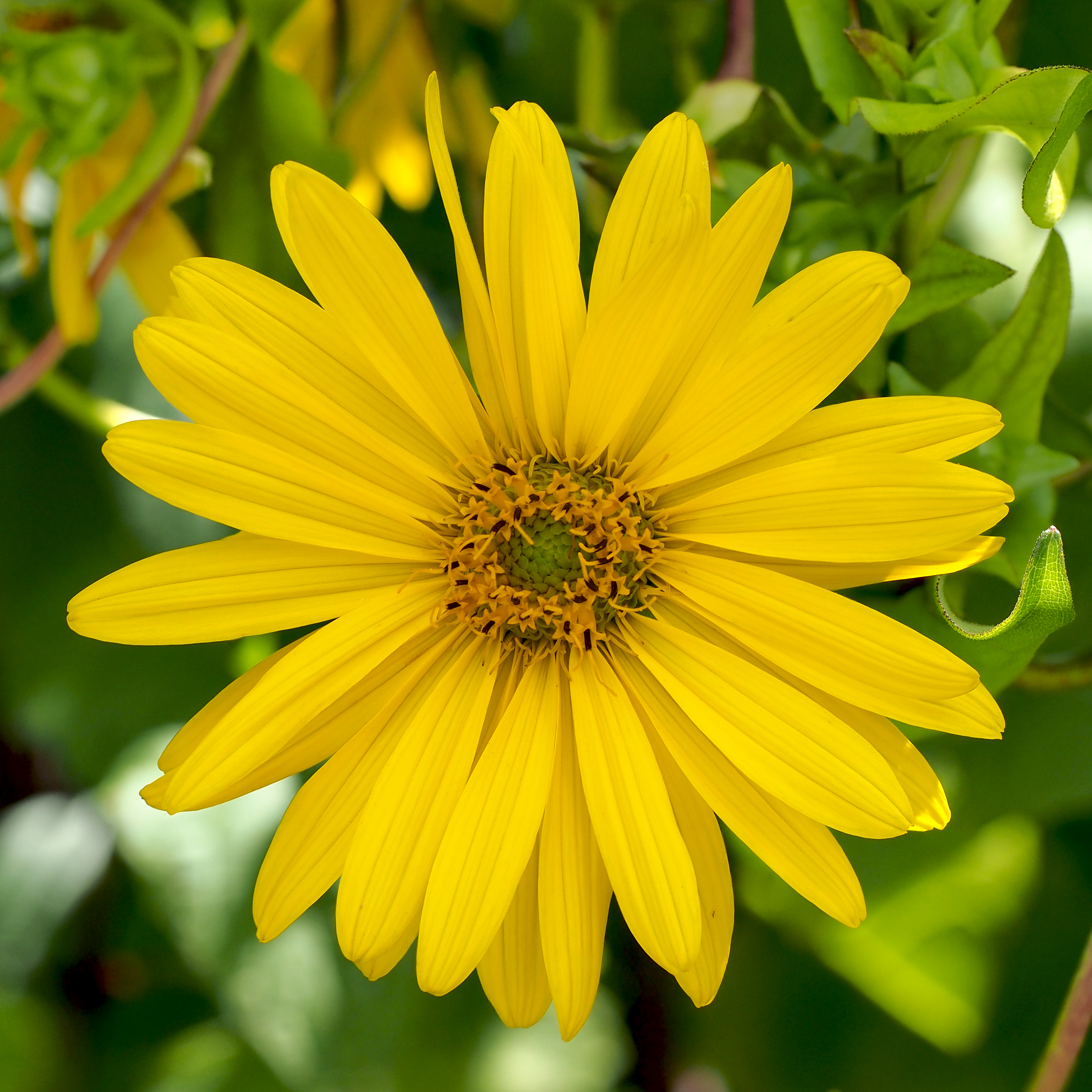 Silphium perfoliatum, Ljubljana Botanical Garden. Slovenia. Size of flower around 7 cm. Macro stack of 7 images. This photograph was taken with a Olympus E-P5.